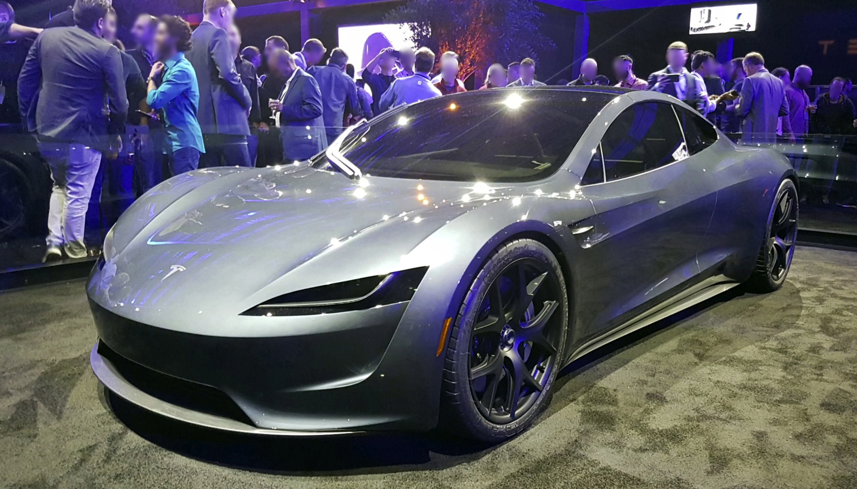 Tesla Roadster 2020 prototype at the launch event on November 2017